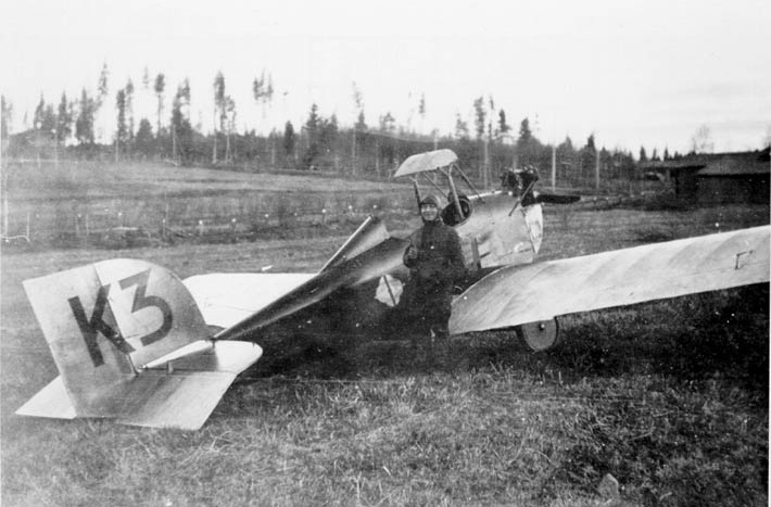 Karhu 3. Photo from Eino Ritajärvi collection.